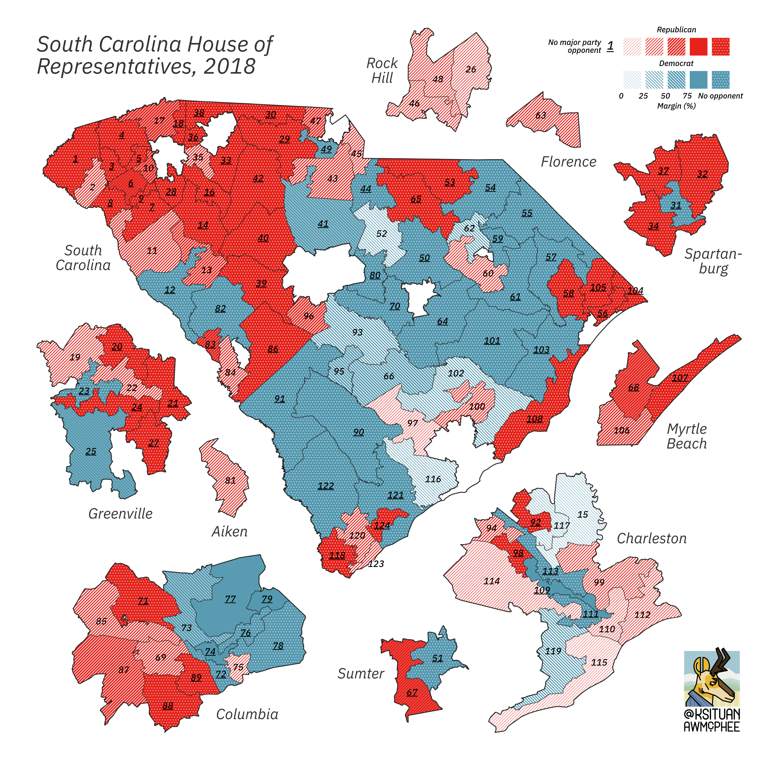 A series of state legislative election maps, created from open data during the summer of 2020. Their common visual style is designed to accomodate all of the unique features of American democracy. They were created using QGIS and Inkscape, two free programs. Please use freely and contact the author with any inquiries about visualizing election data with open-source tools.